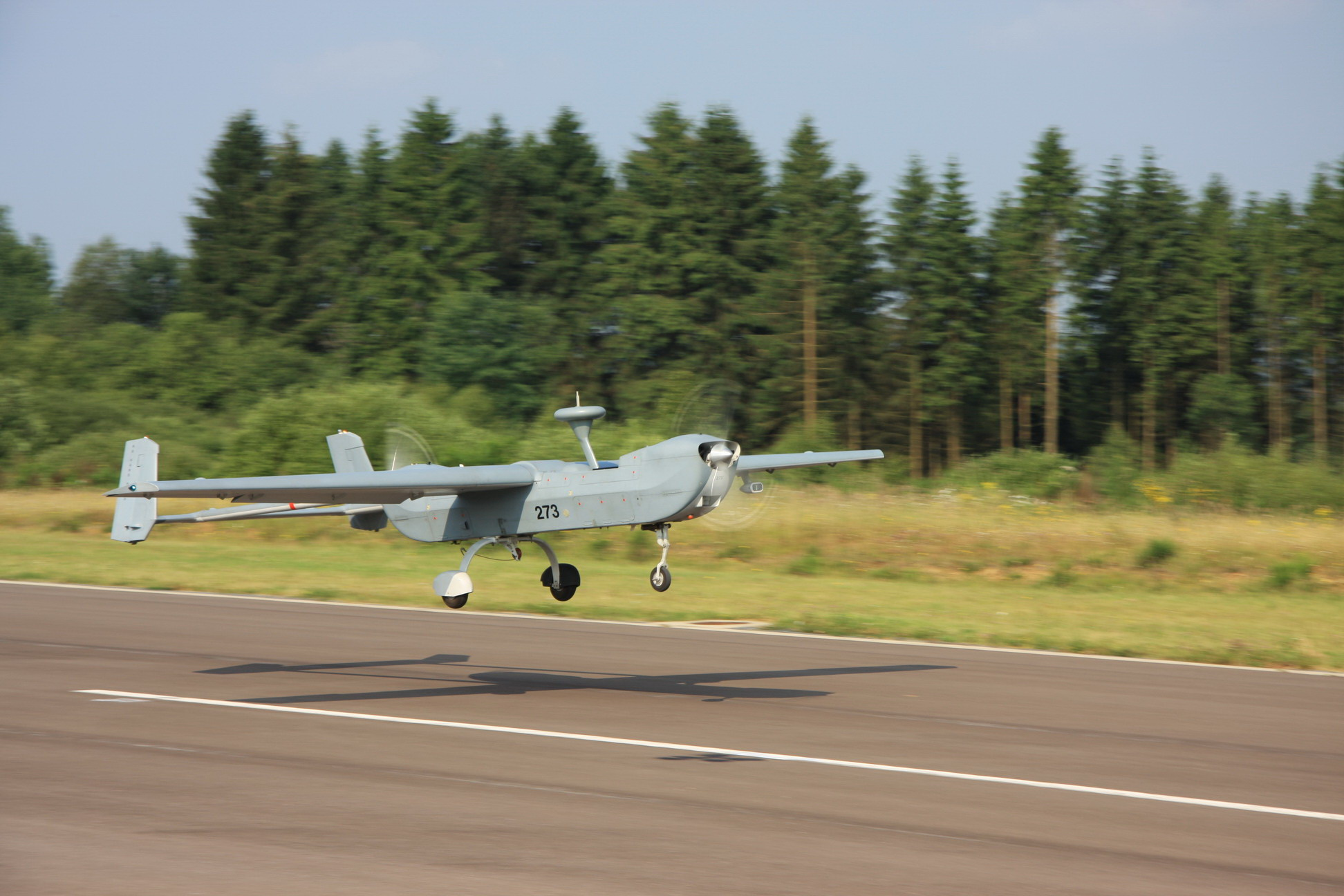 B-Hunter Landing